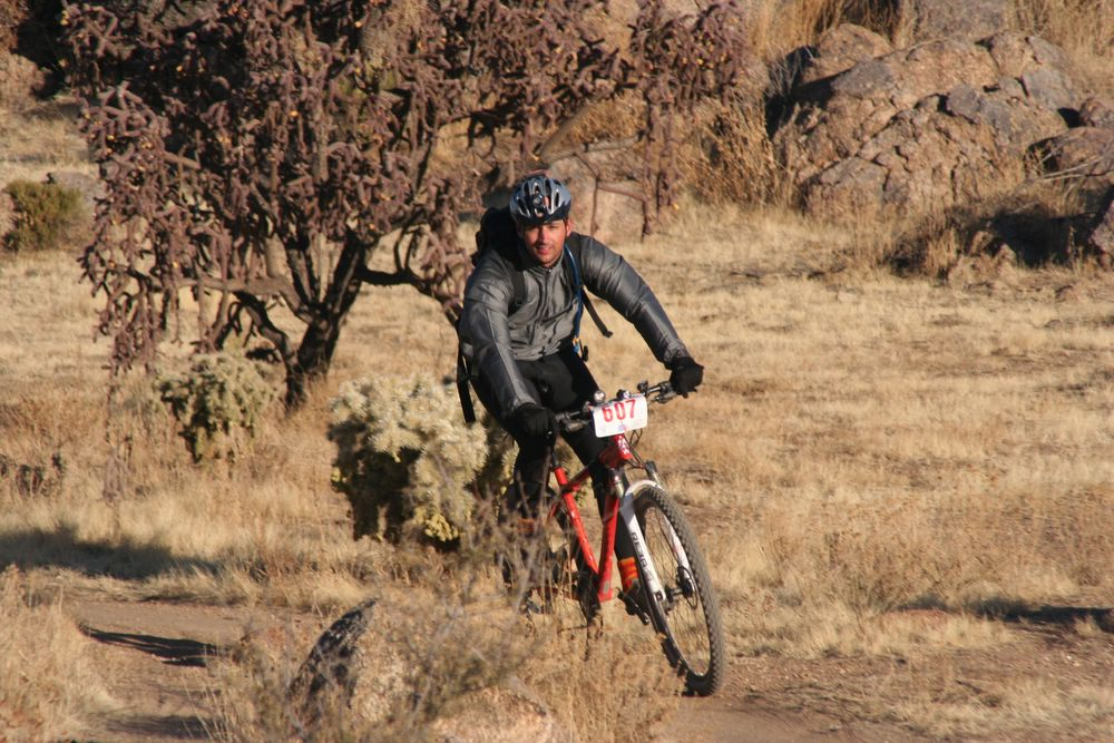 AJ after his second lap (in a row!) coming back to the finish